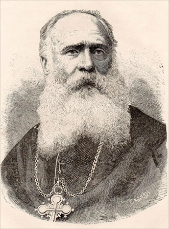 Augusto Bonetti